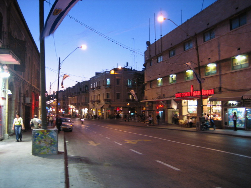 Jaffo street in jerusalem at night. taken by he:משתמש:אסף.